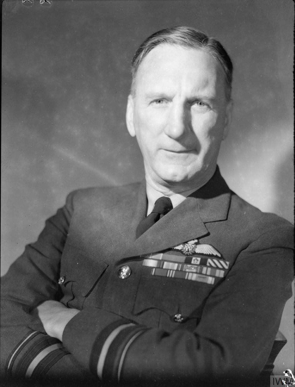 Royal Air Force Coastal Command, 1939-1945. Head and shoulders portrait of Air Vice Marshal Sir Leonard Slatter, Air Officer Commanding No. 15 Group.